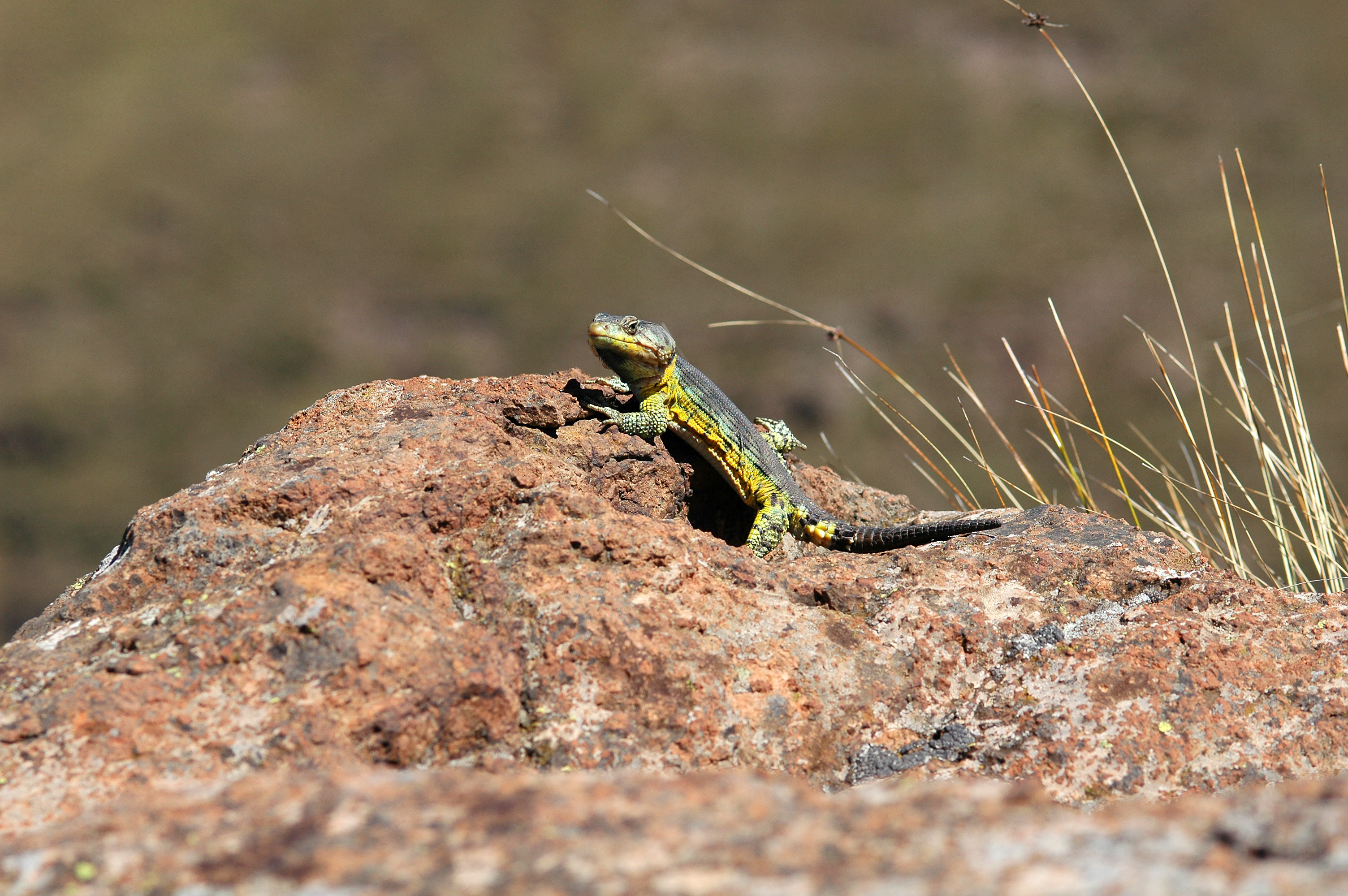 A male Drakensberg Crag Lizard in the uKahlamba-Drakensberg Park on the Lesotho border